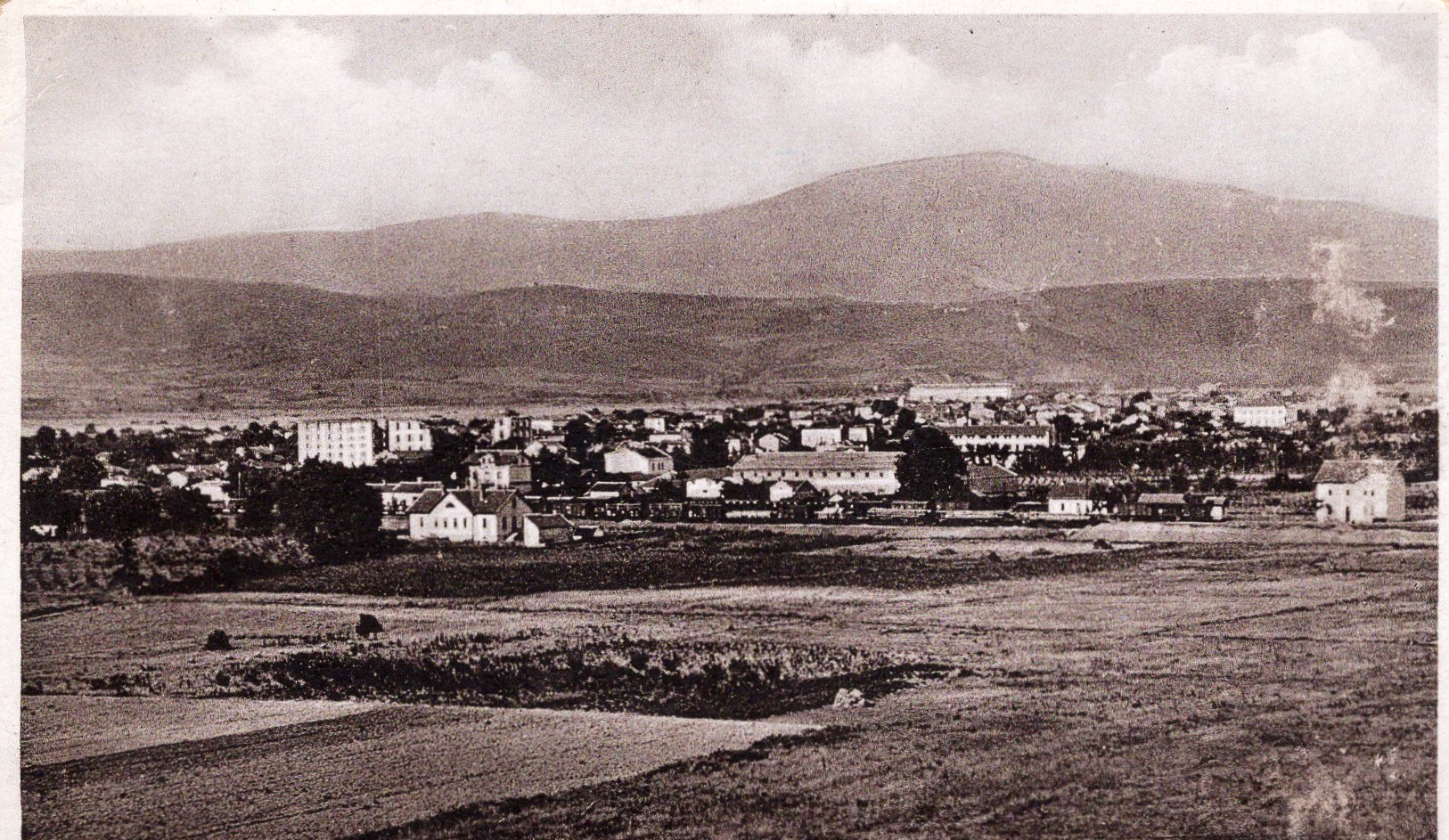 Postcard of Gevgelija, 1930's This media file is produced by Wikipedian in Residence in Category:Wikipedian in Residence at DARM in 2016.